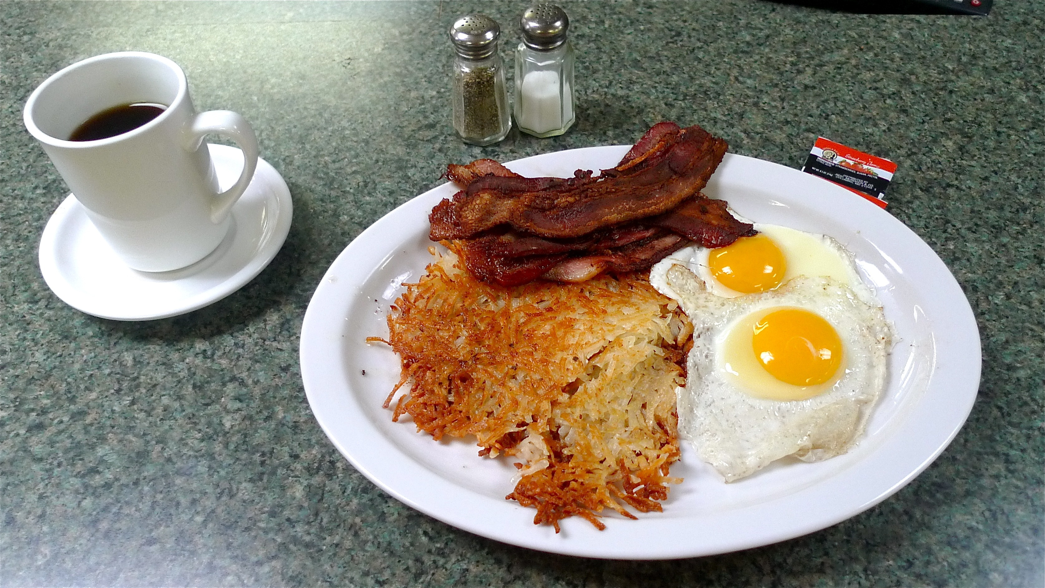 Breakfast at the Nevada Treasure Restaurant. Two eggs sunny side up, Crispy hash browns Bacon & Coffee